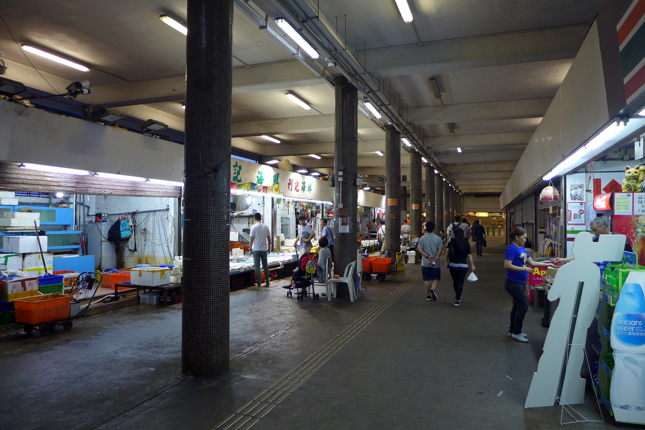 North Point Ferry Pier Fish market